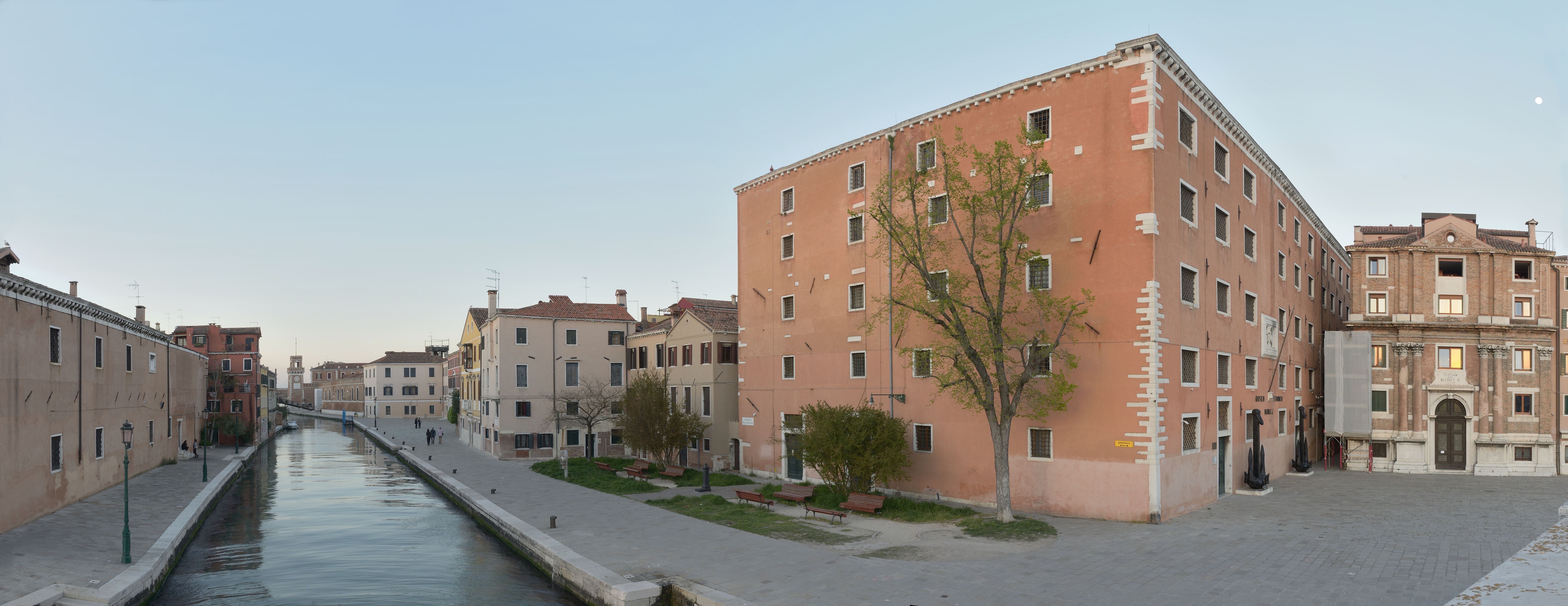 Museo storico navale naval history museum on the Riva San Biasio in Venice.